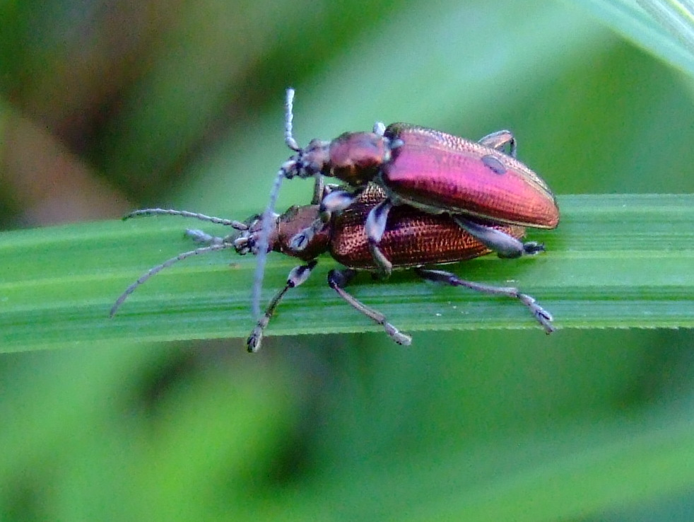 Reed beetle mating in Kirchwerder, Hamburg.